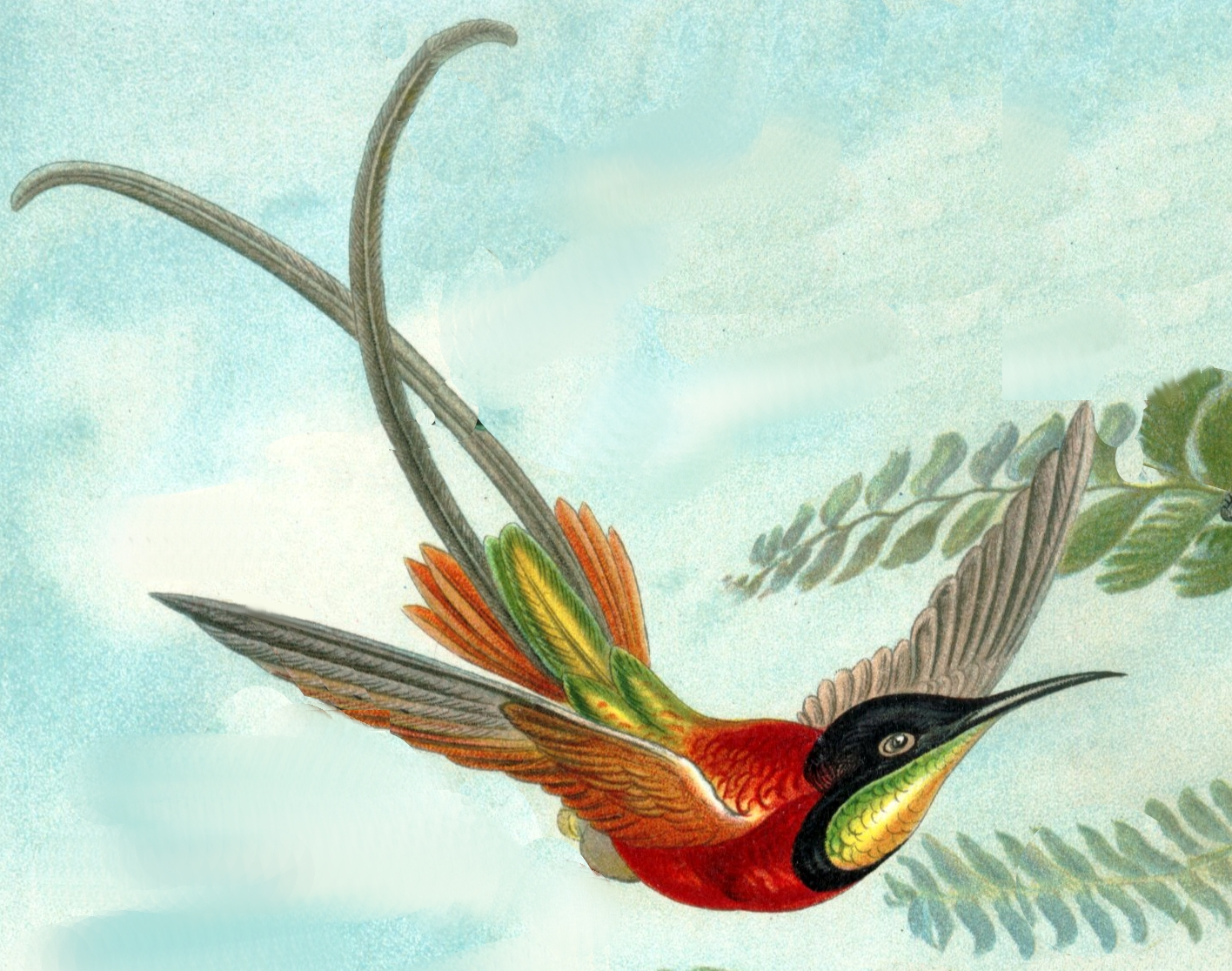 Male Crimson Topaz (drawn from millinery specimen, body position is not natural)